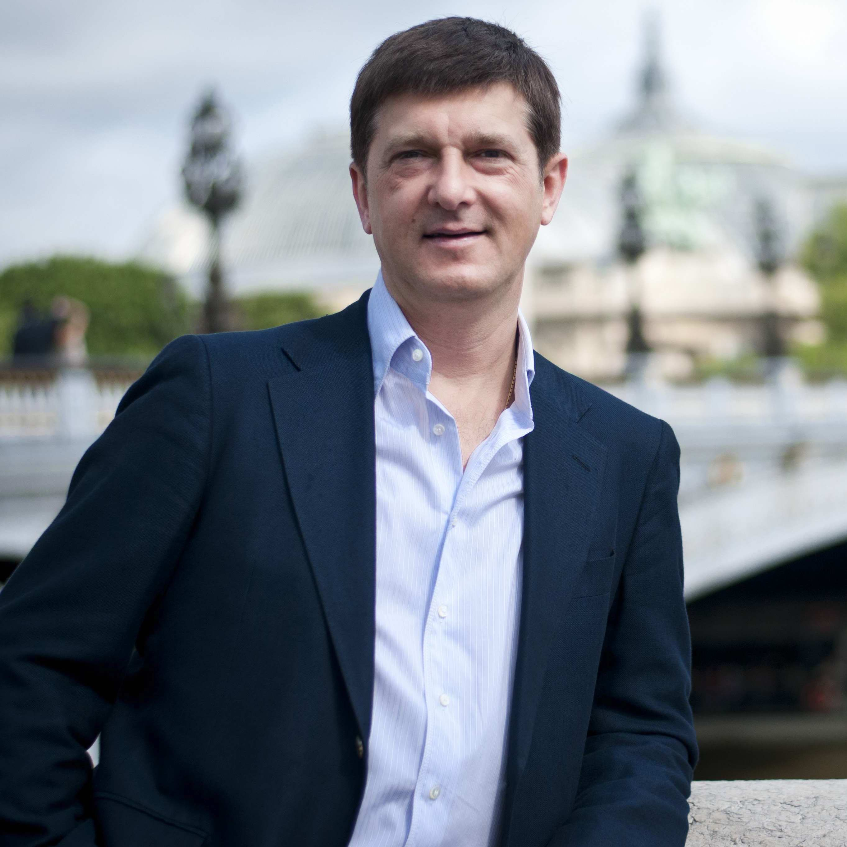 Dmitry Kuzmin is the President of the European party " LOVE"